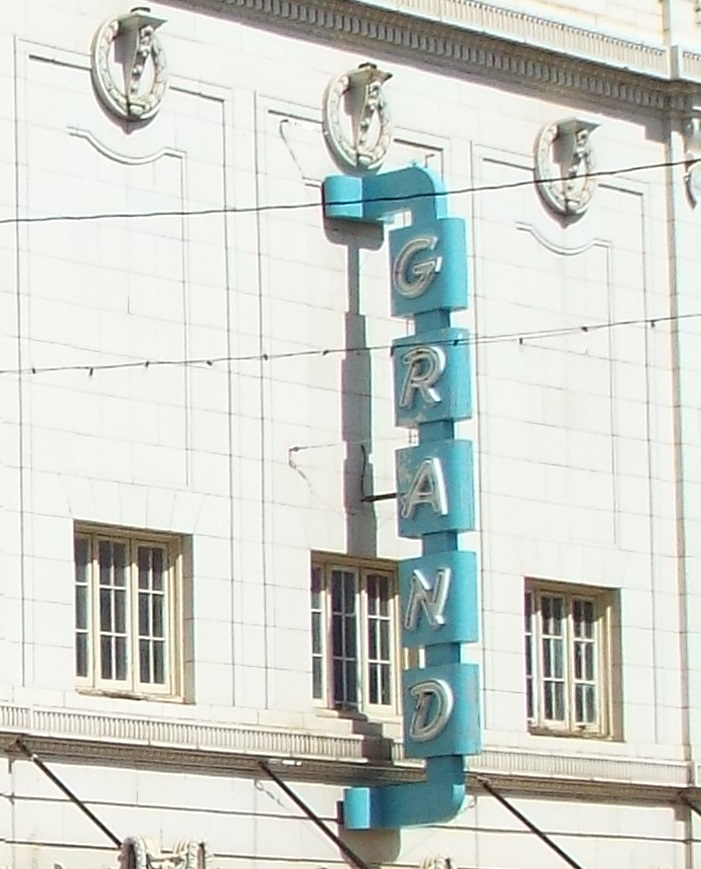 Grand Theater in Douglas, Arizona